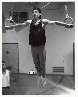 Example of Iron Cross also known as the Azaryan Cross or Crucifix, from personal archives